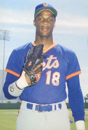 Professional baseball player Darryl Strawberry